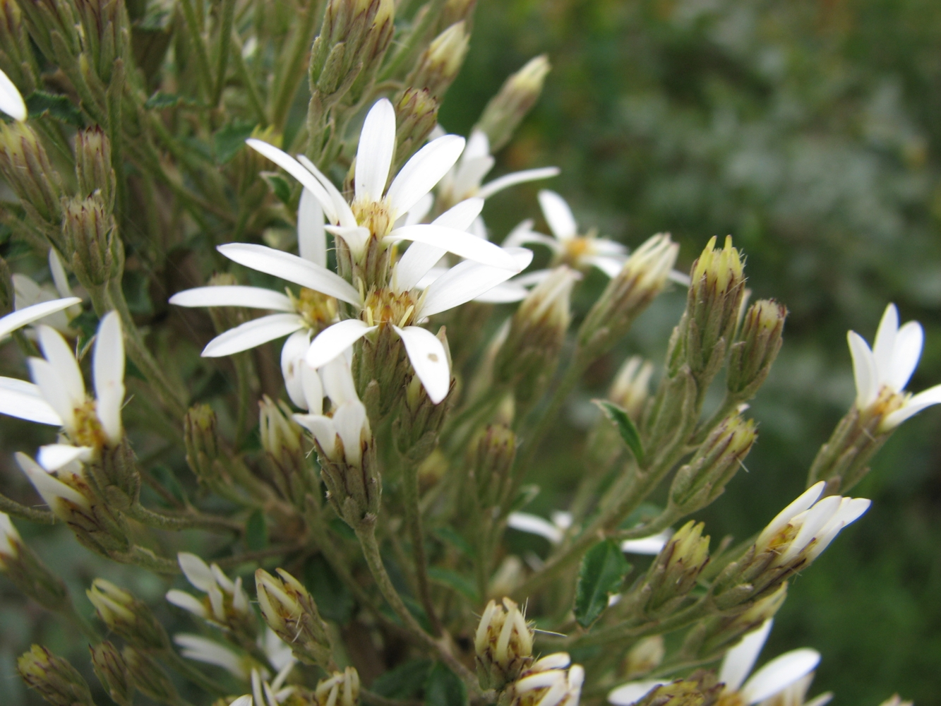 Olearia erubescens, Kinglake National Park, Victoria, Australia